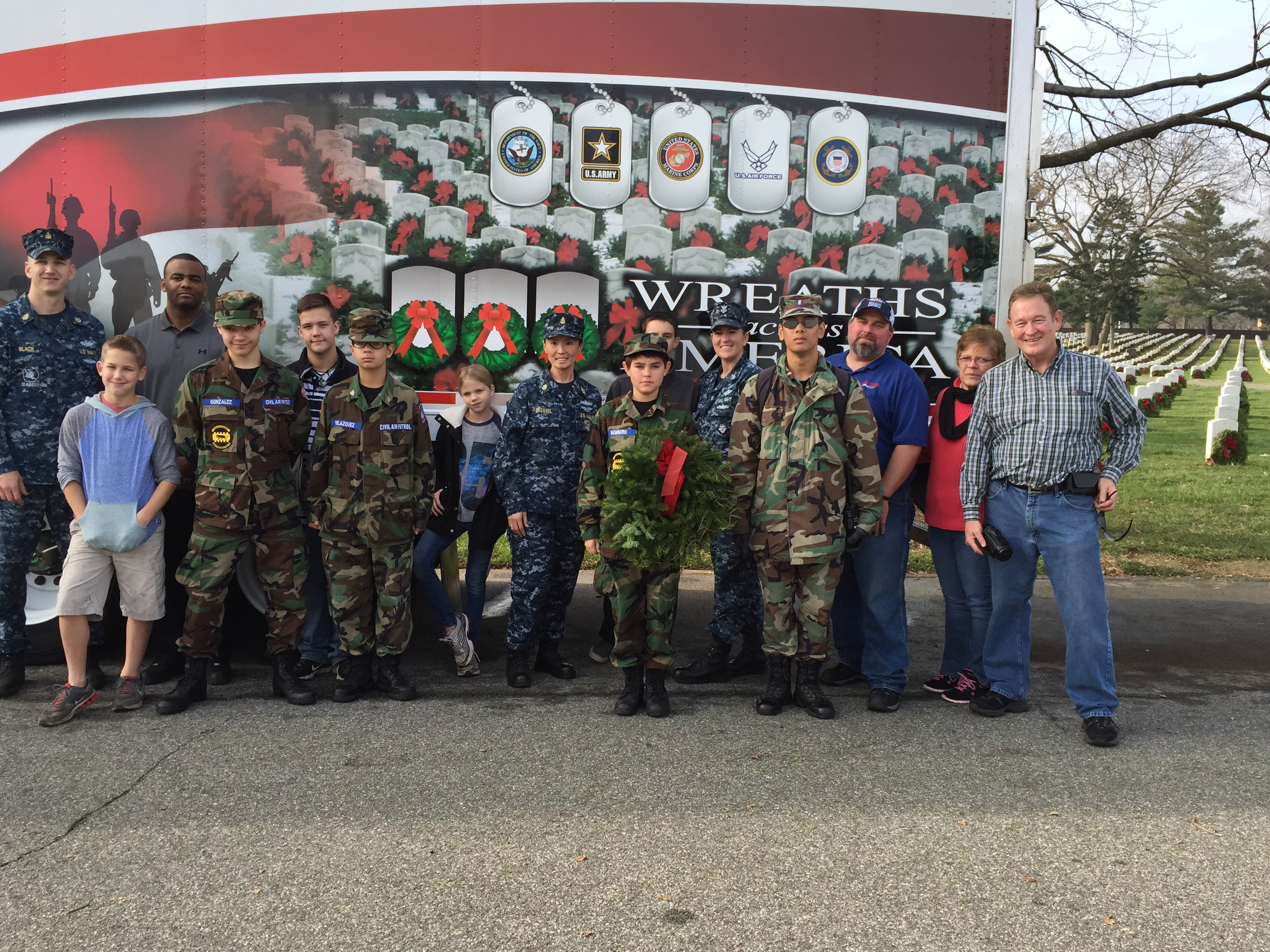 CAP members work at Arlington National Cemetery distributing wreathes